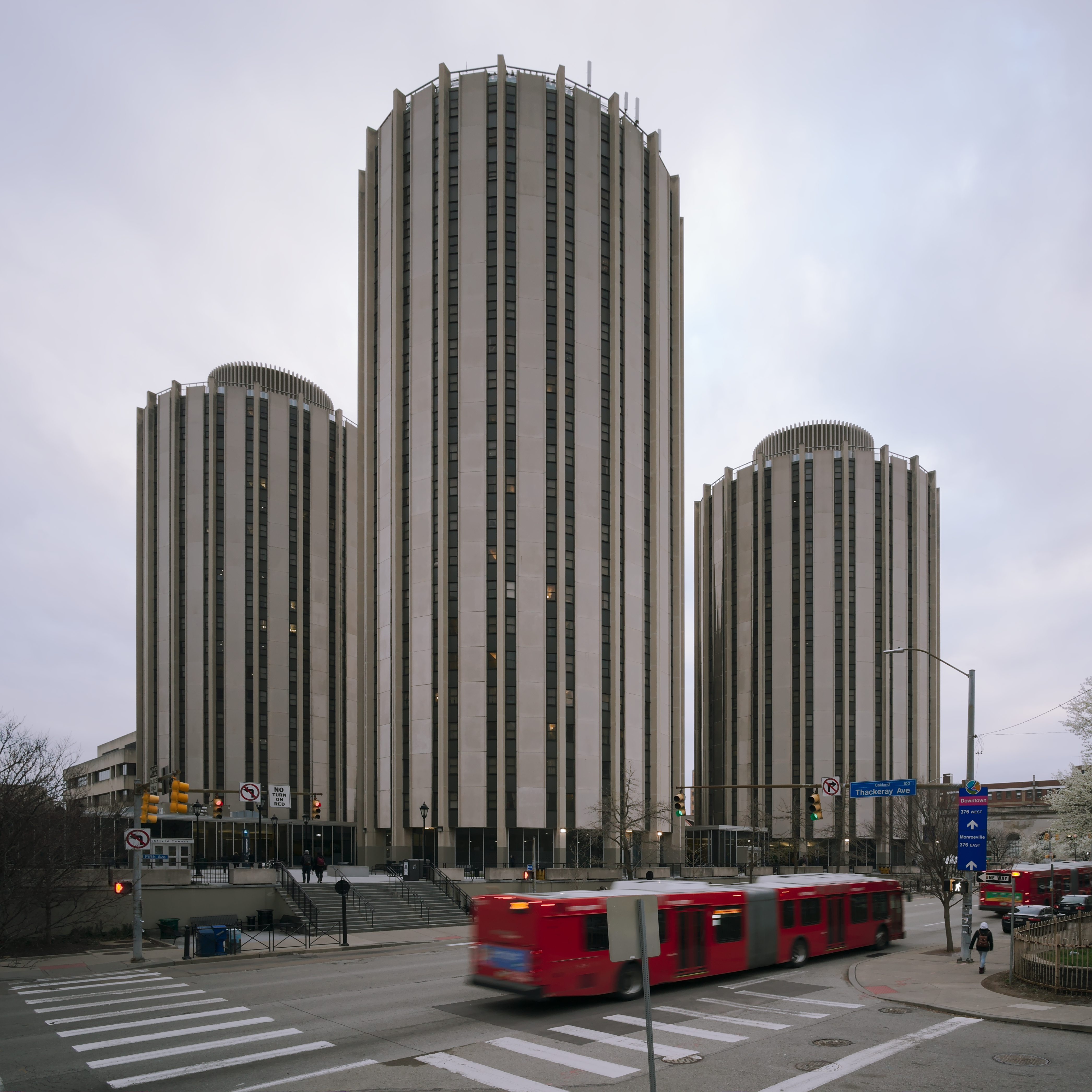 Litchfield Towers are three cylindrical towers that serve as dormitories at the University of Pittsburgh.